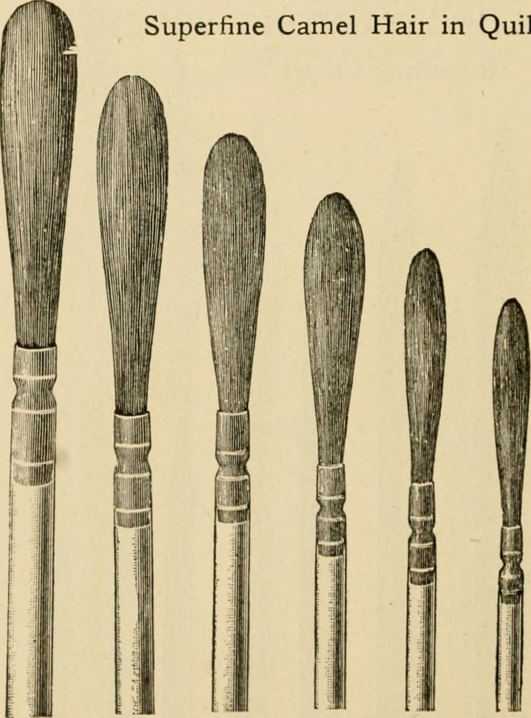 Image from page 89 of "Illustrated catalogue and price list of colors and materials for decorating china, earthenware, glass, enamelled iron, etc. : oxides and chemicals / imported and manufactured by B. F. Drakenfeld & Co." (1914)